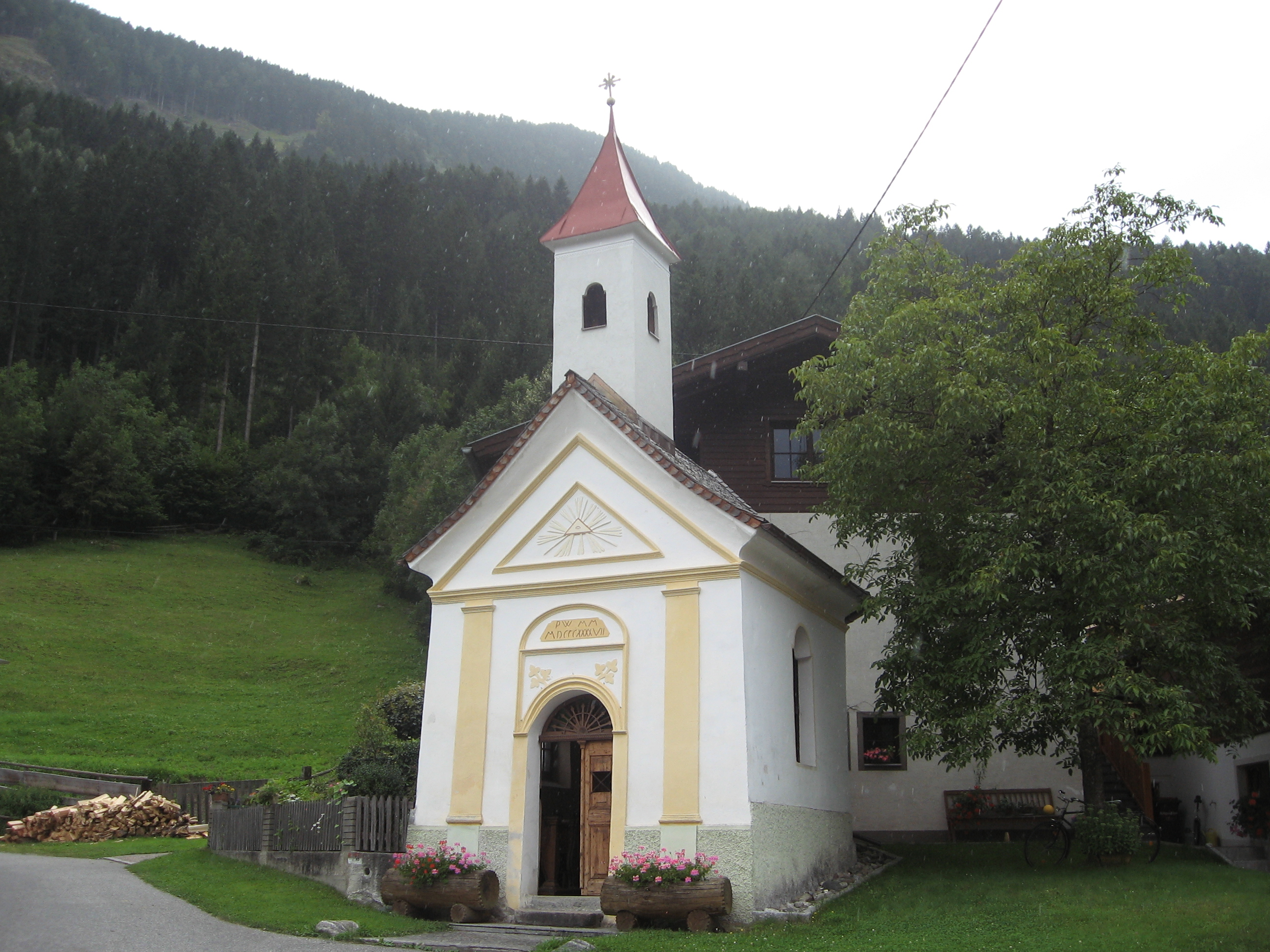 Cultural heritage monuments in Reißeck.